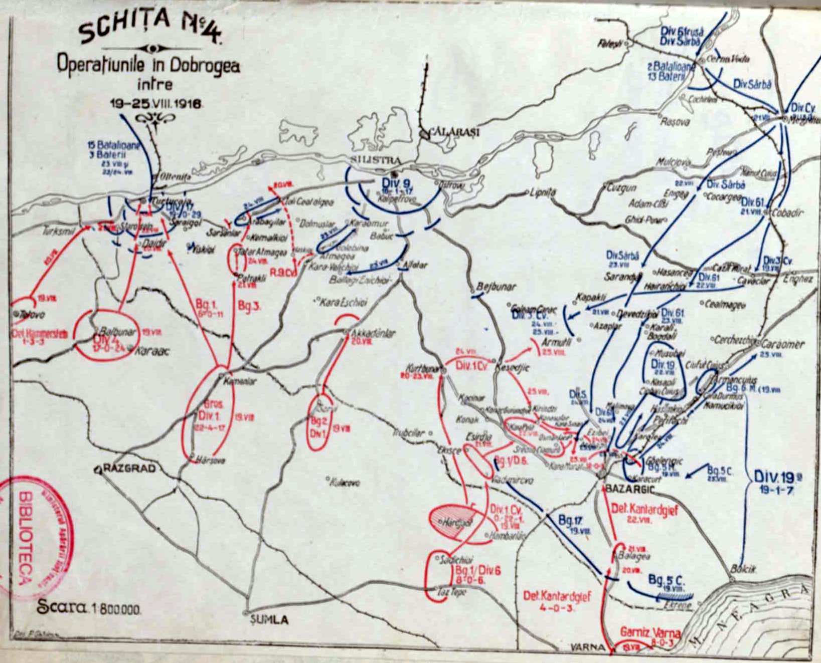 Map with the battles from Dobrogea - 1916